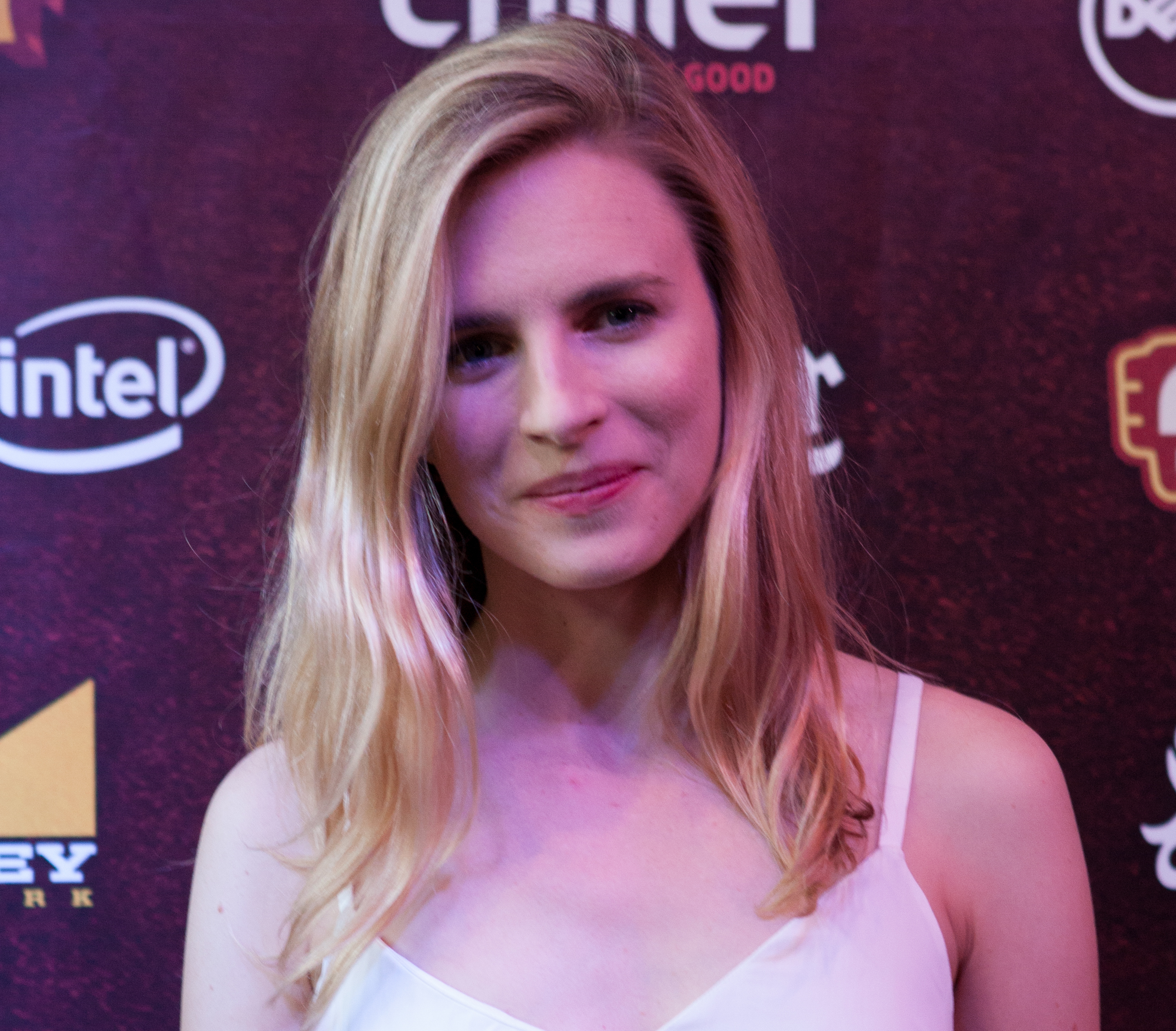 Brit Marling red carpet Fantastic Fest 2015-9884.jpg